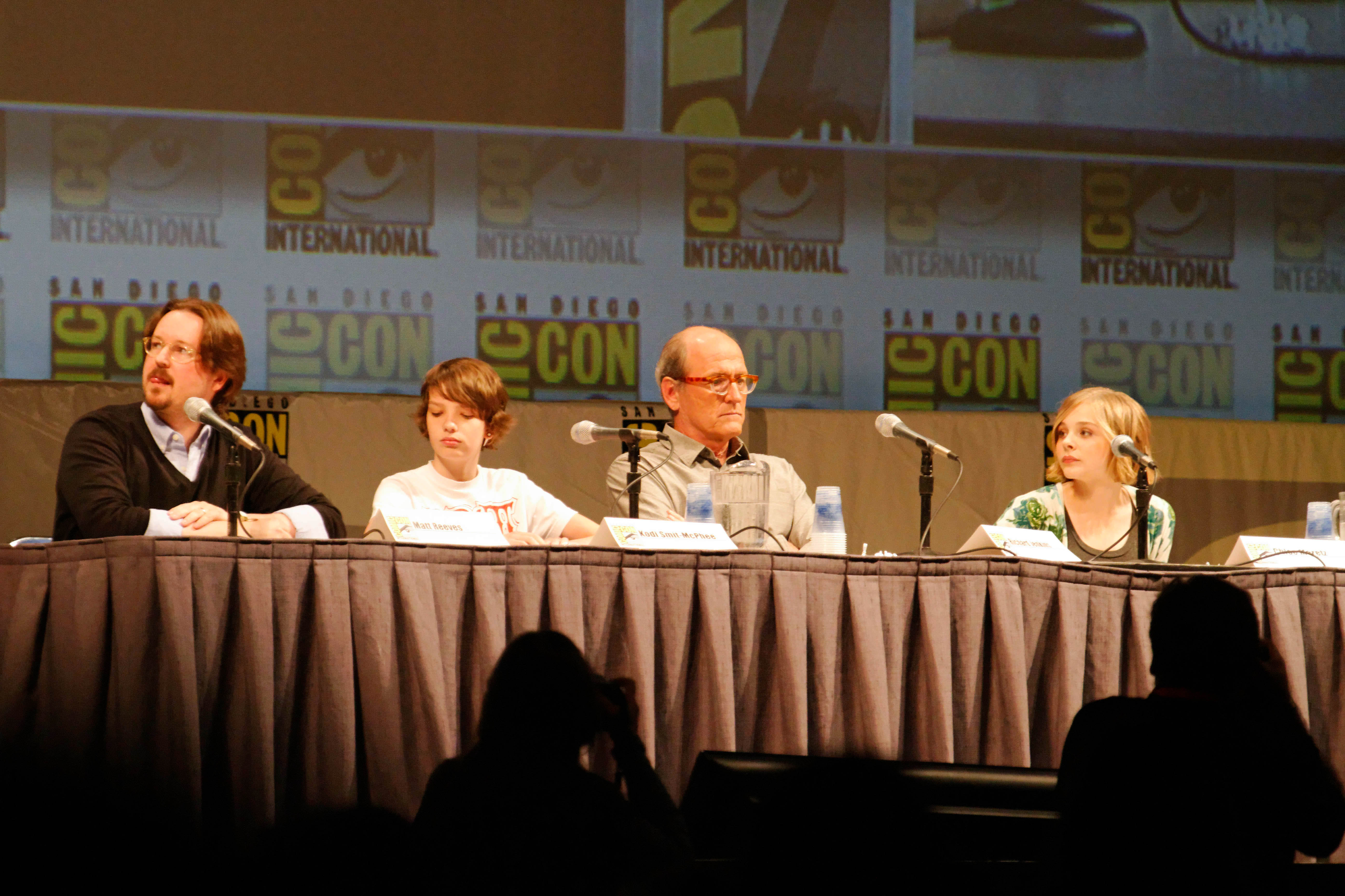 (Left to right) Matt Reeves, Kodi Smit-McPhee, Richard Jenkins, and Chloë Grace Moretz at ComicCon 2010 discussing Let Me In.